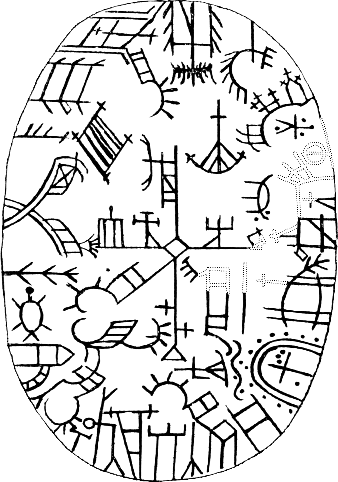 Sami drum from Meråker, Nord-Trøndelag, Norway. Depicted while held by shaman in this picture in Knud Leem's Beskrivelse over Finnmarkens Lapper, deres Tungemaal, Levemaade og forrige Afgudsdyrkelse (Copenhagen 1767).Later metioned in Manker's Die lappische Zaubertrommel (1938), page 51-52. Drum lost.